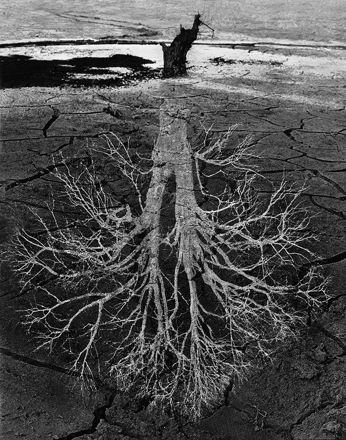 Jan Šplíchal, from the cycle Landscapes, 1974